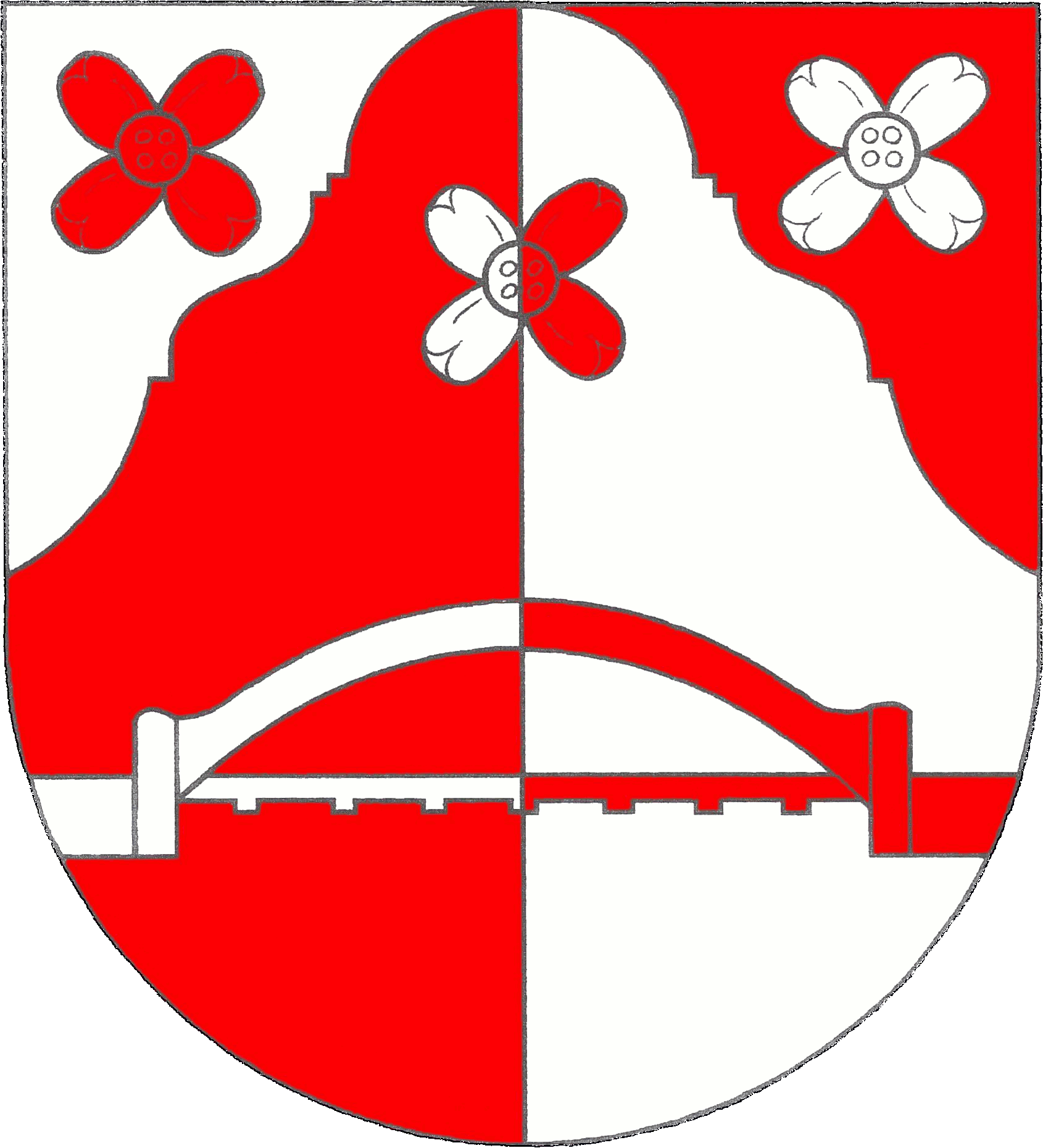 Coat of arms of the municipality Rastorf in Schleswig-Holstein, Germany.